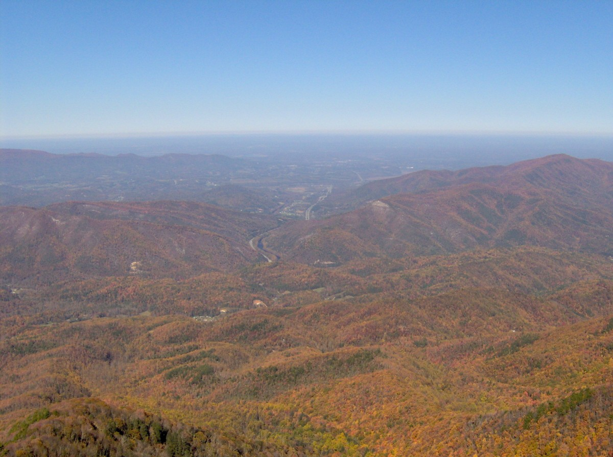 Looking north from Mount Cammerer (el. 4,928 feet/1,502 feet) in the Great Smoky Mountains. Interstate 40 is near the center of the photo, with English Mountain in the distance on the left, Green Mountain in foreground on the left, and Stone Mountain (Hall Top) on the right. Cosby, Tennessee is in the lower left.